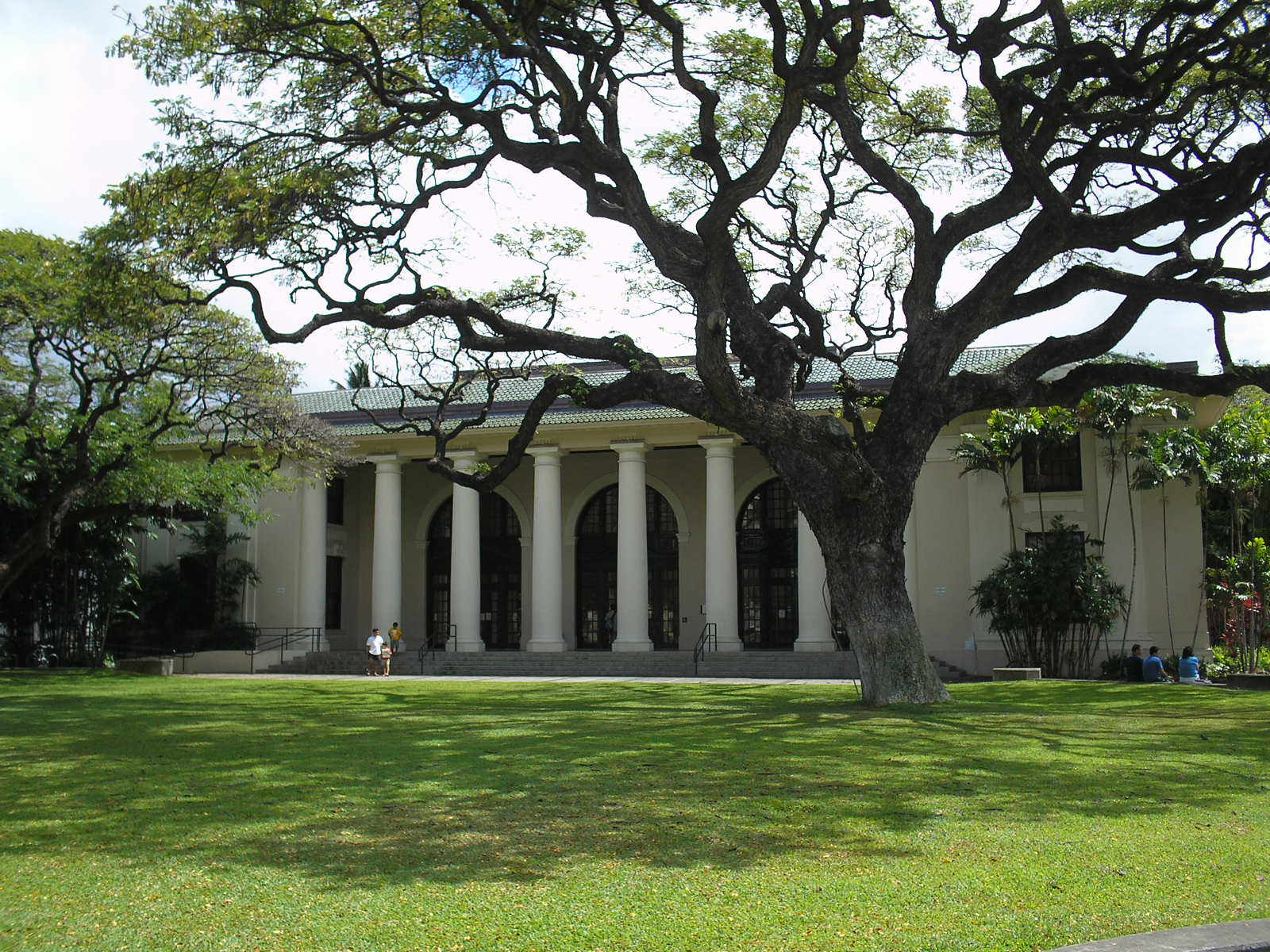 The Hawaii State Library — 478 S. King St., Honolulu, Oahu, Hawaii. Originally a Carnegie library built in 1913. Contributing property in the Hawaii Capital Historic District, on National Register of Historic Places.